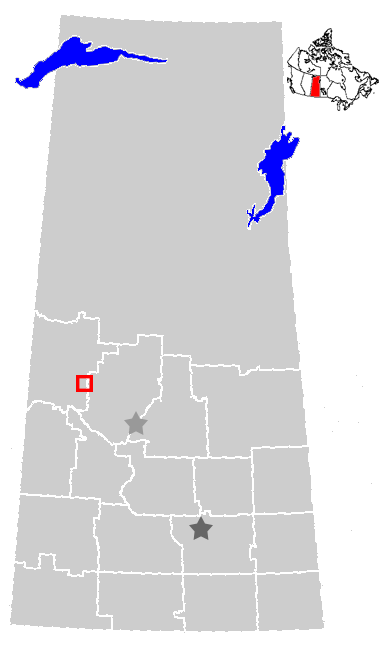 Location of North Battleford, Saskatchewan